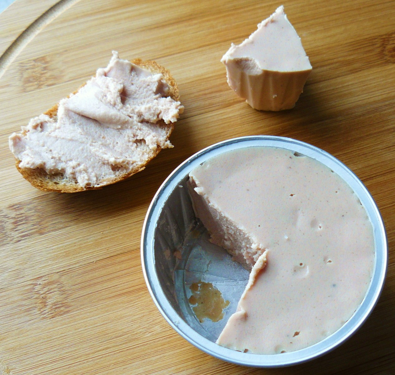 Polish low-cost Pâté with Mechanically separated meat